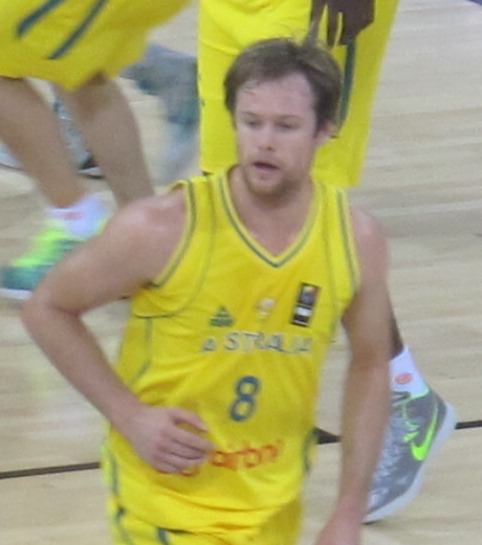 Category:Uploaded This file is made available under the Creative Commons CC0 1.0 Universal Public Domain Dedication. The person who associated a work with this deed has dedicated the work to the public domain by waiving all of their rights to the work worldwide under copyright law, including all related and neighboring rights, to the extent allowed by law. You can copy, modify, distribute and perform the work, even for commercial purposes, all without asking permission.